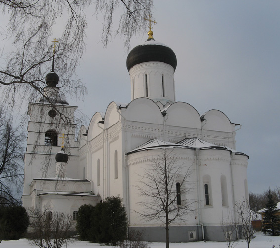 Dmitrov. Borisiglebsky_Monastery. Boris & Gleb's Sobor